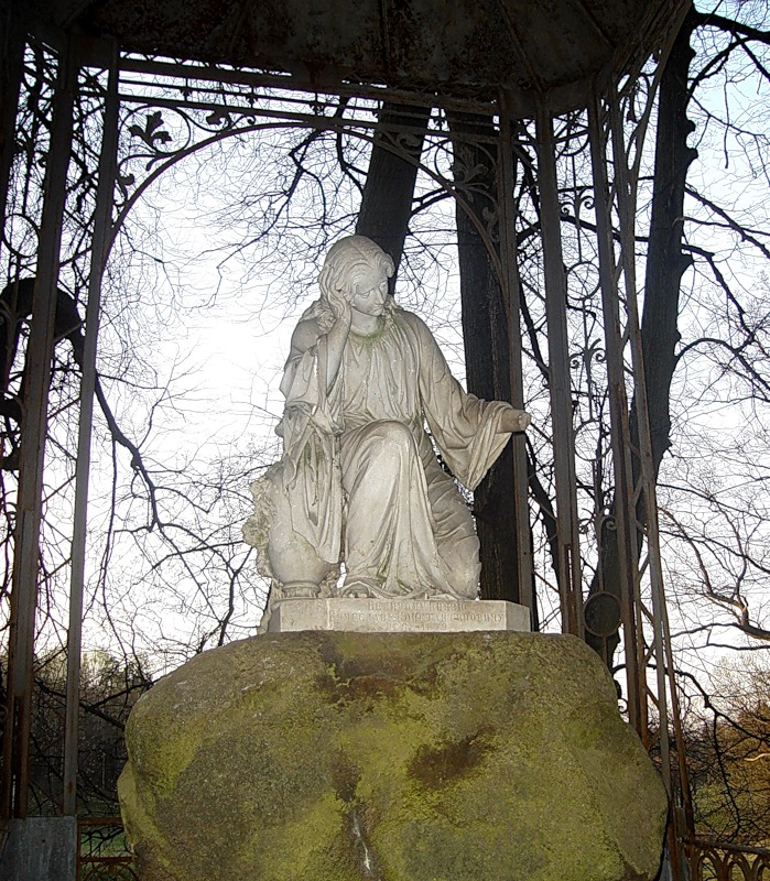 Prince Vyacheslav Constantinovich's monument in Pavlovsk Park